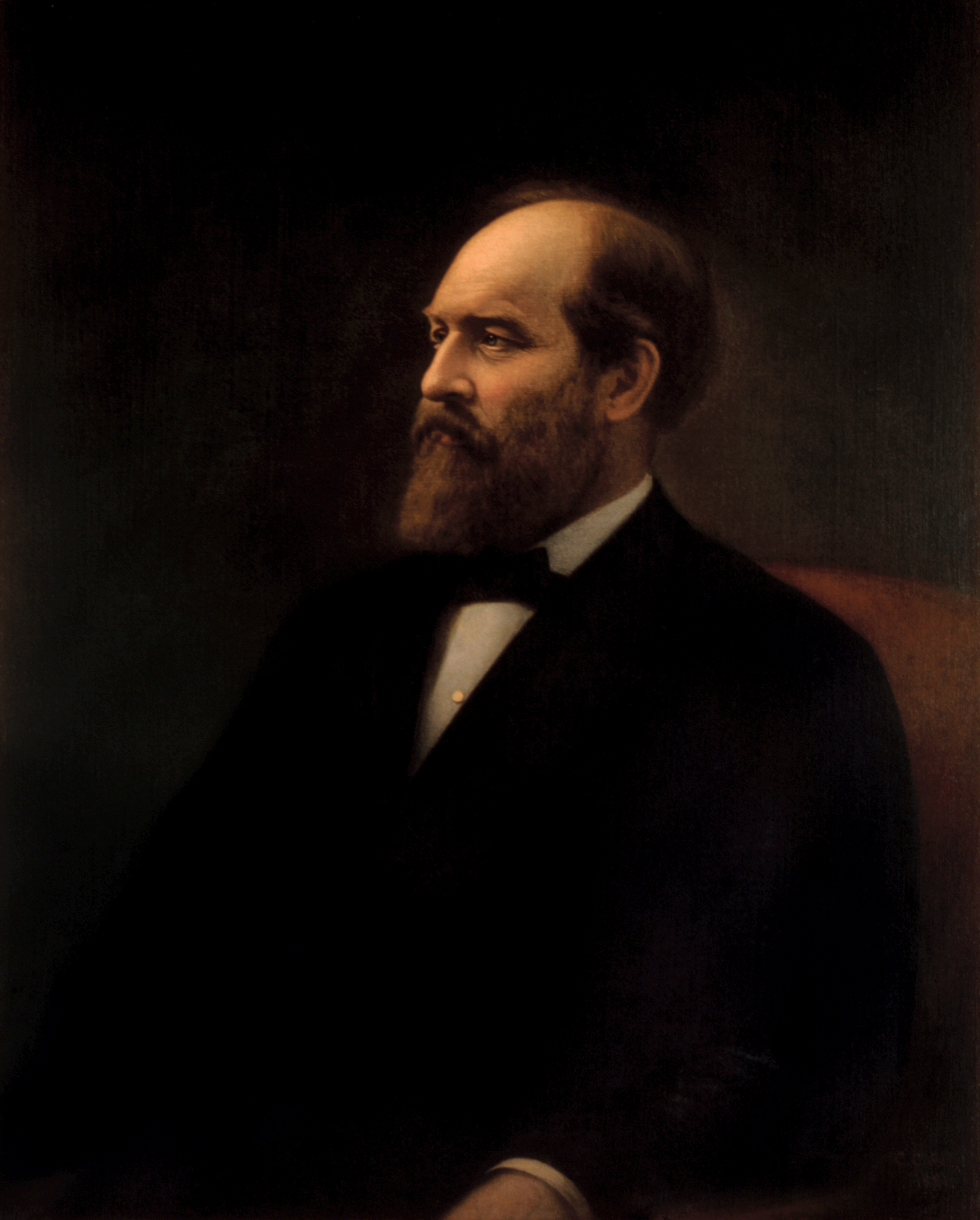 Official Presidential portrait of James Abram Garfield